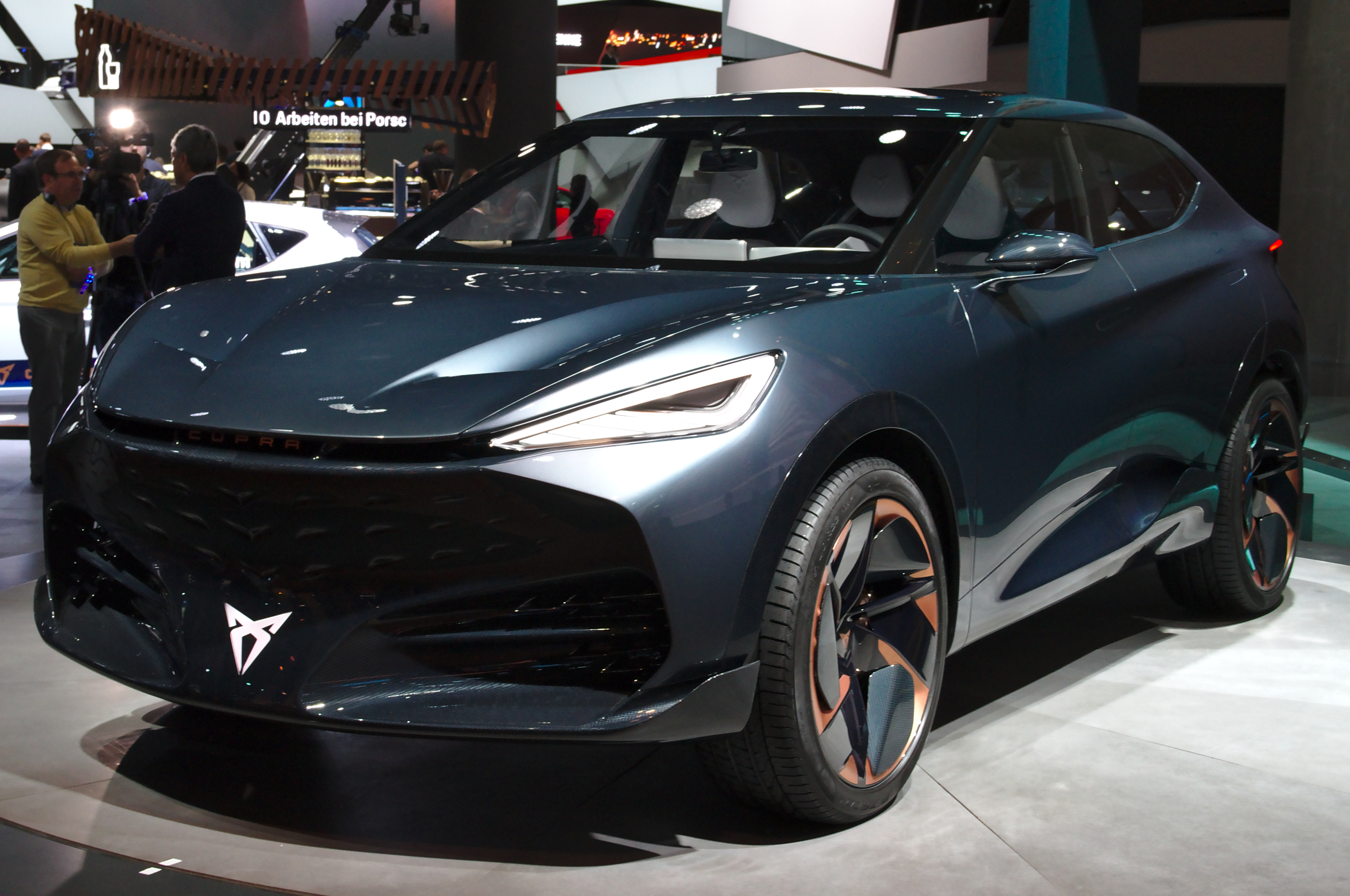 Cupra_Tavascan at IAA 2019